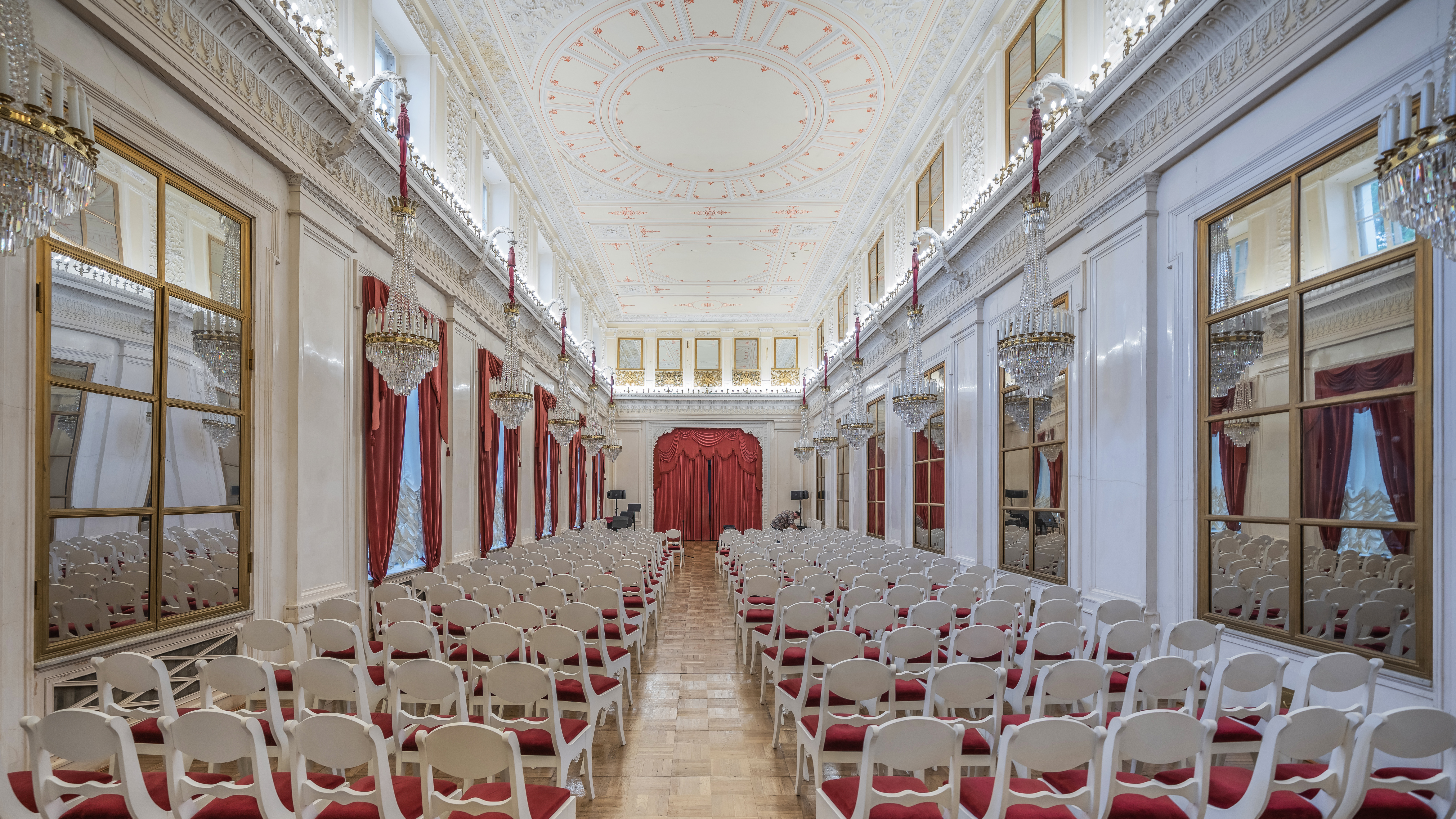 Interiors of Fountain House (Sheremetev Palace at Fontanka) in Saint Petersburg, Russia